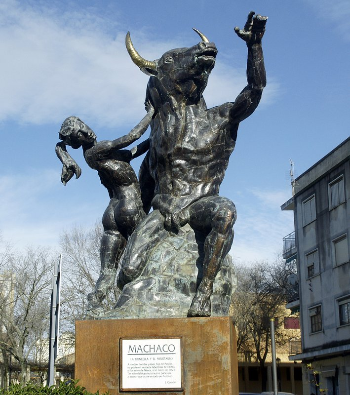 La doncella y el Minotauro